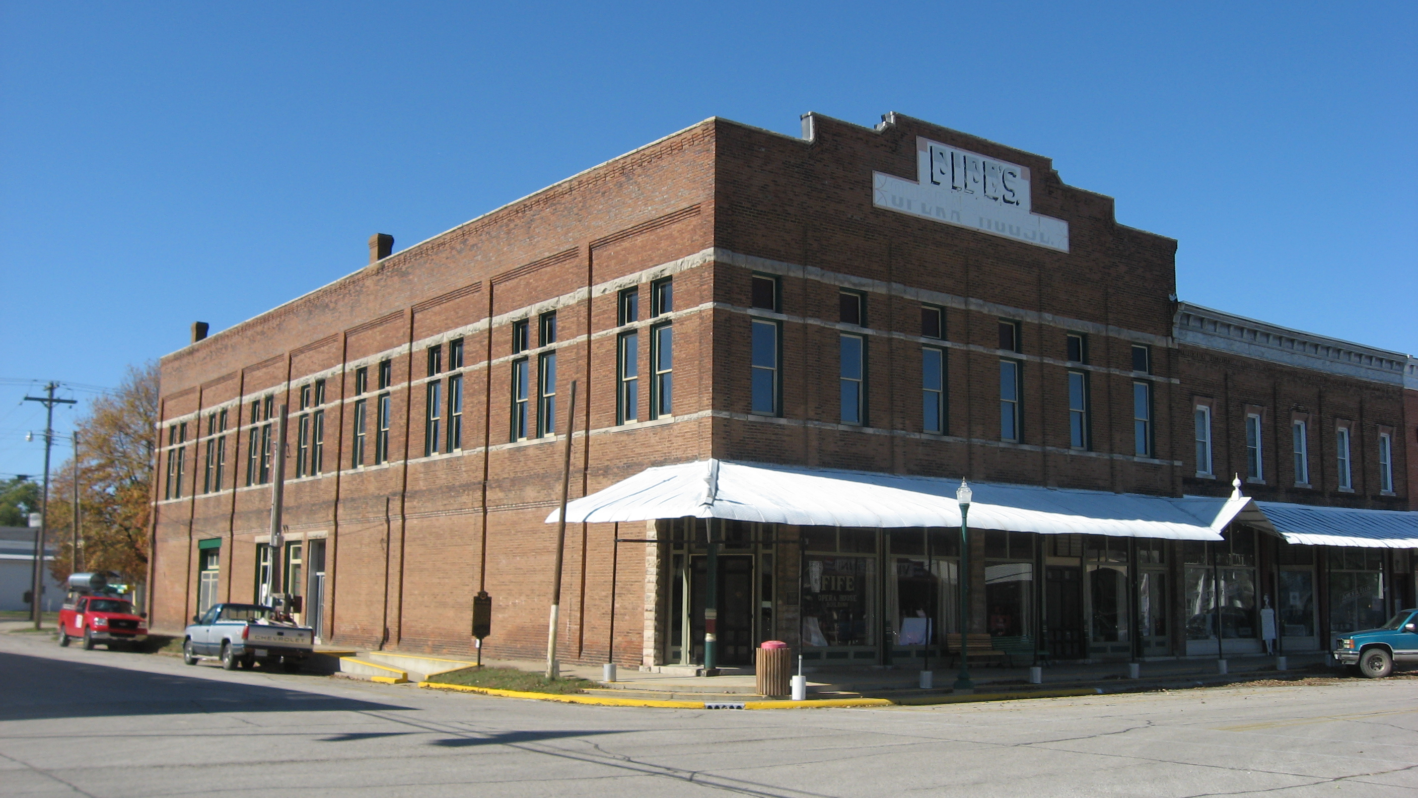 Front and southern side of the Fife Opera House, located at 123-125 S. Main Street in Palestine, Illinois, United States. Built in 1901, it is listed on the National Register of Historic Places, and it is part of a Register-listed historic district, the Palestine Commercial Historic District.